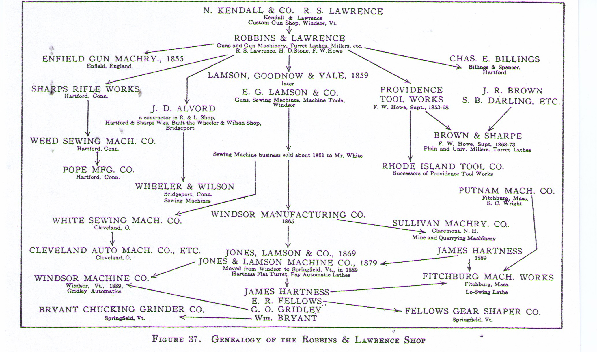 Diagram of persons who worked at Robbins & Lawrence and moved on to other companies.